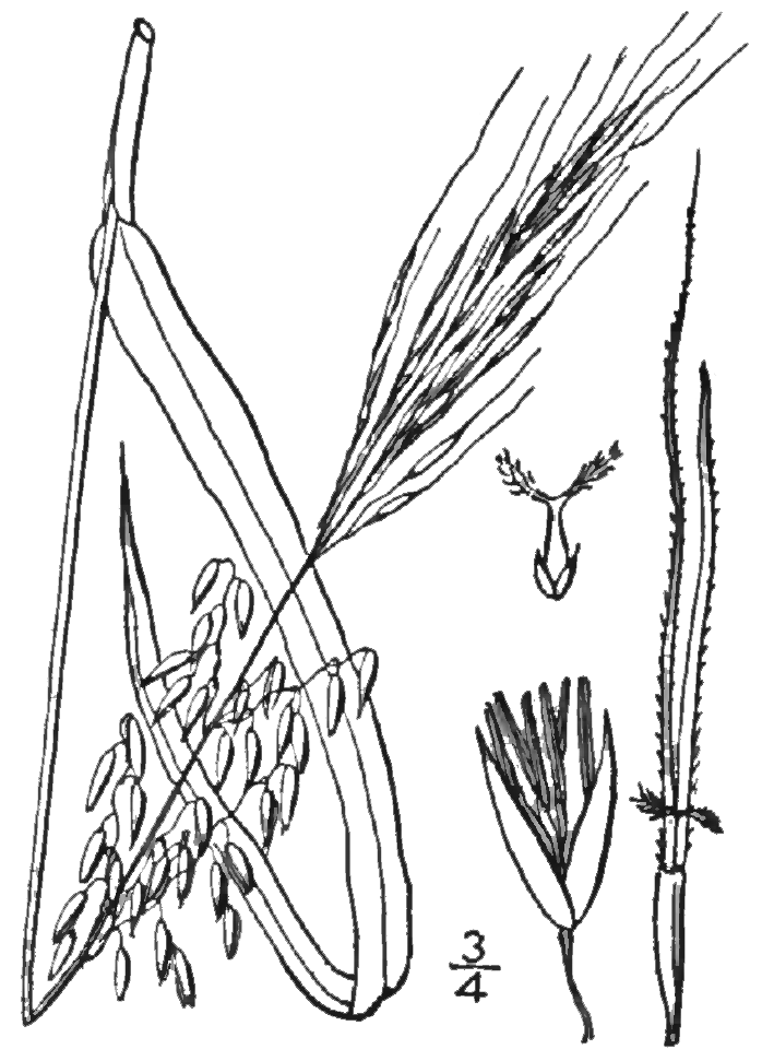 Fig. 399. Zizania aquatic from the second edition of An Illustrated Flora of the Northern United States, Canada and the British Possessions (New York, 1913)